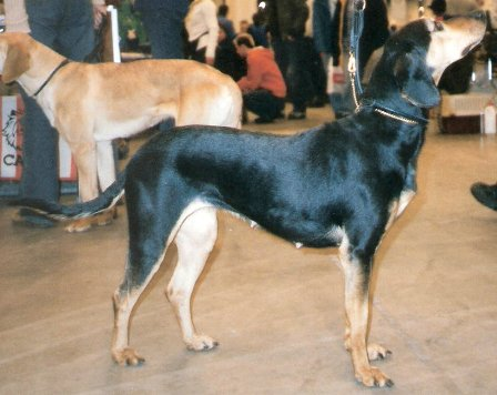 A Hellenic Hound (or Greek Harehound) female.